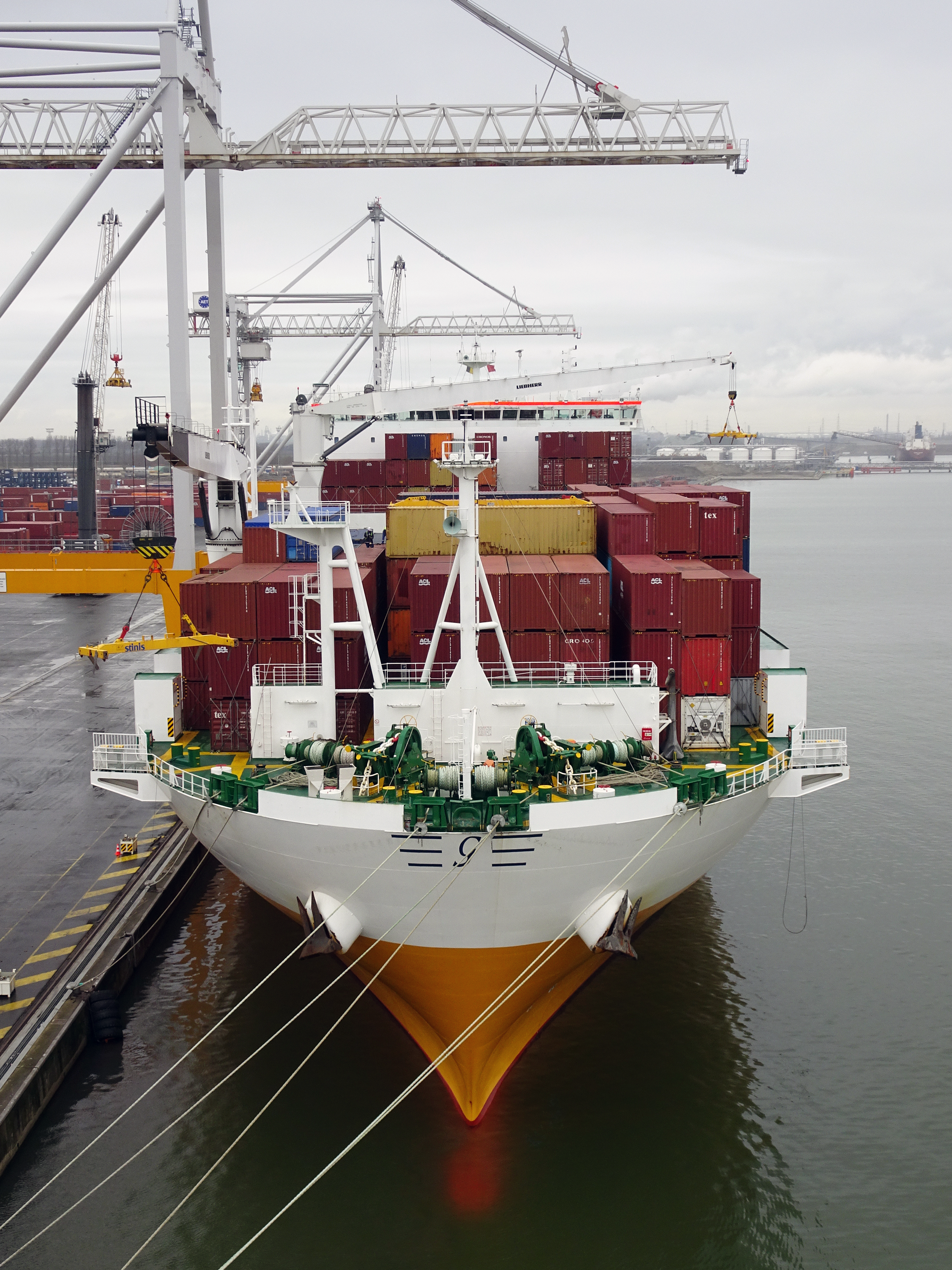 Loading a container ship from the Grimaldi company in the port of Antwerp in Belgium